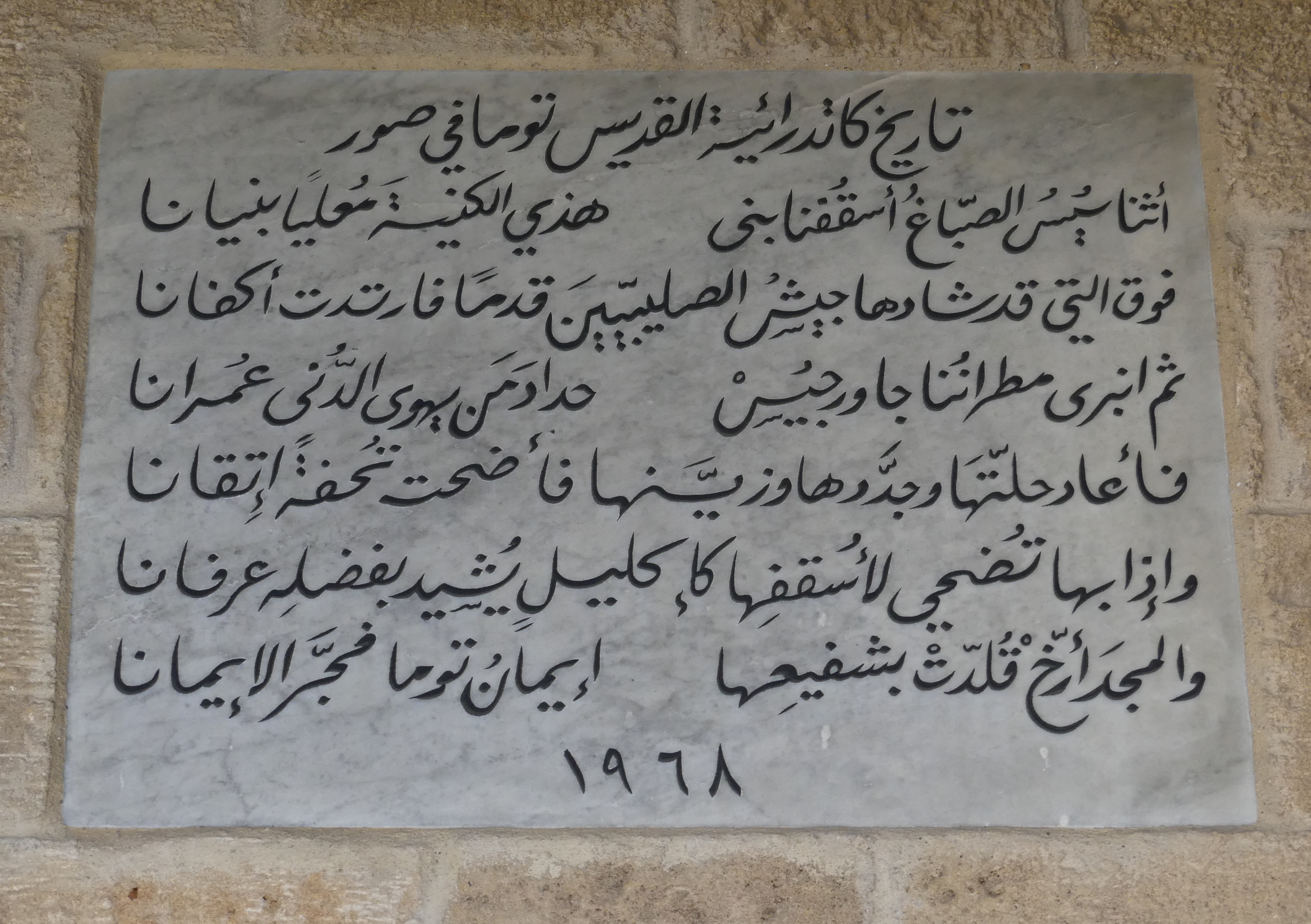 1968 plaque in the facade of the Melkite Greek Catholic Cathedral of Saint Thomas in Tyre/Sour, Southern Lebanon, commemorating the efforts of then Archbishop Georges Haddad to have the historical church building repaired.